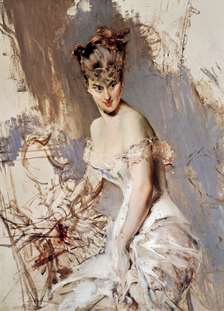 Portrait of Alice Regnault